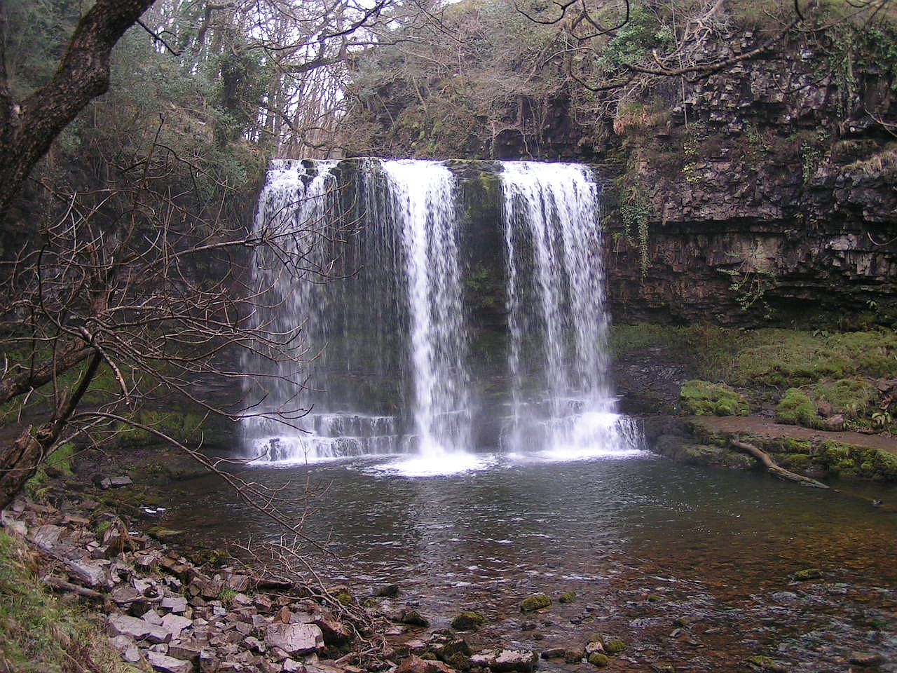 Sgŵd yr Eira, a waterfall on the Afon Hepste near the village of Ystradfellte in the Brecon Beacons National Park . A public right-of-way leads from one side of the river to the other, behind the falling waters. Photograph taken 17th April 2005.